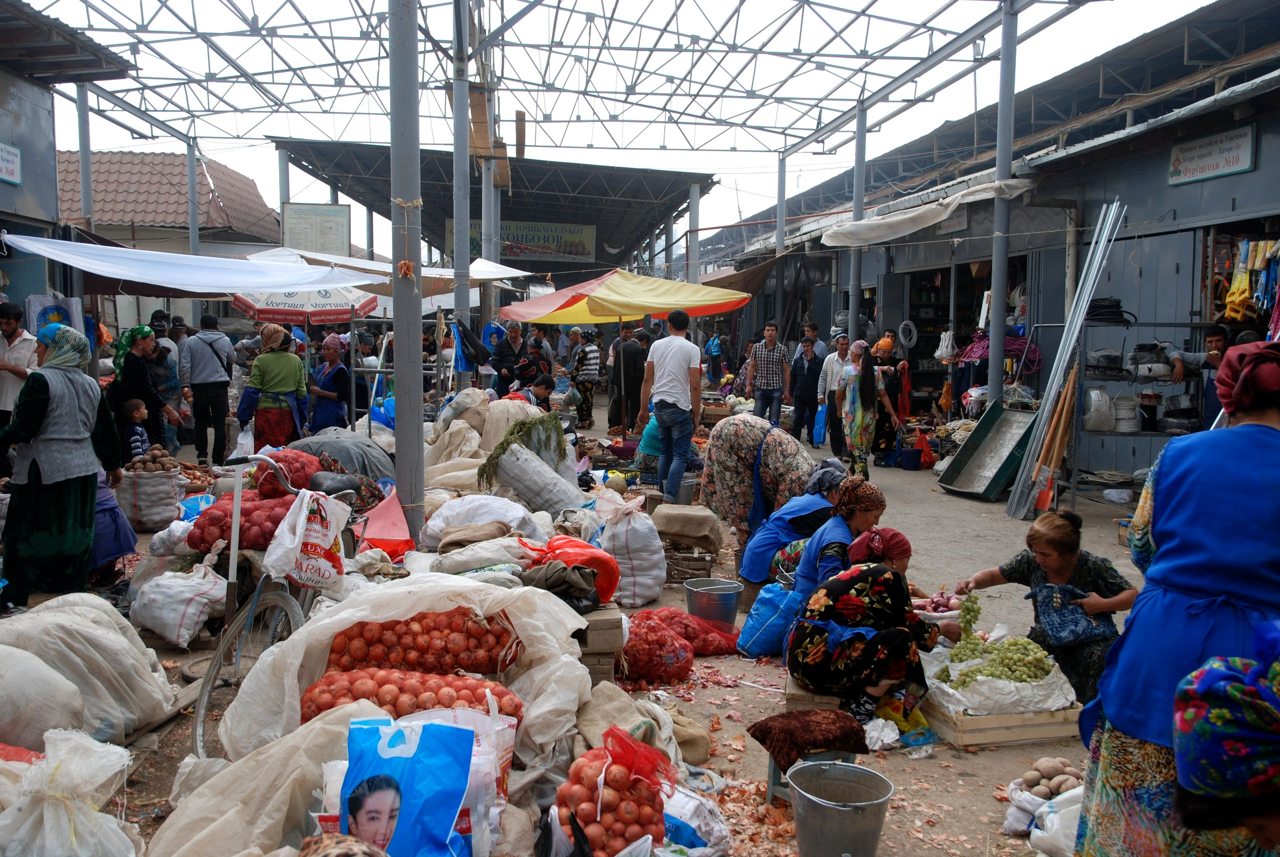 Tursunzoda, merket